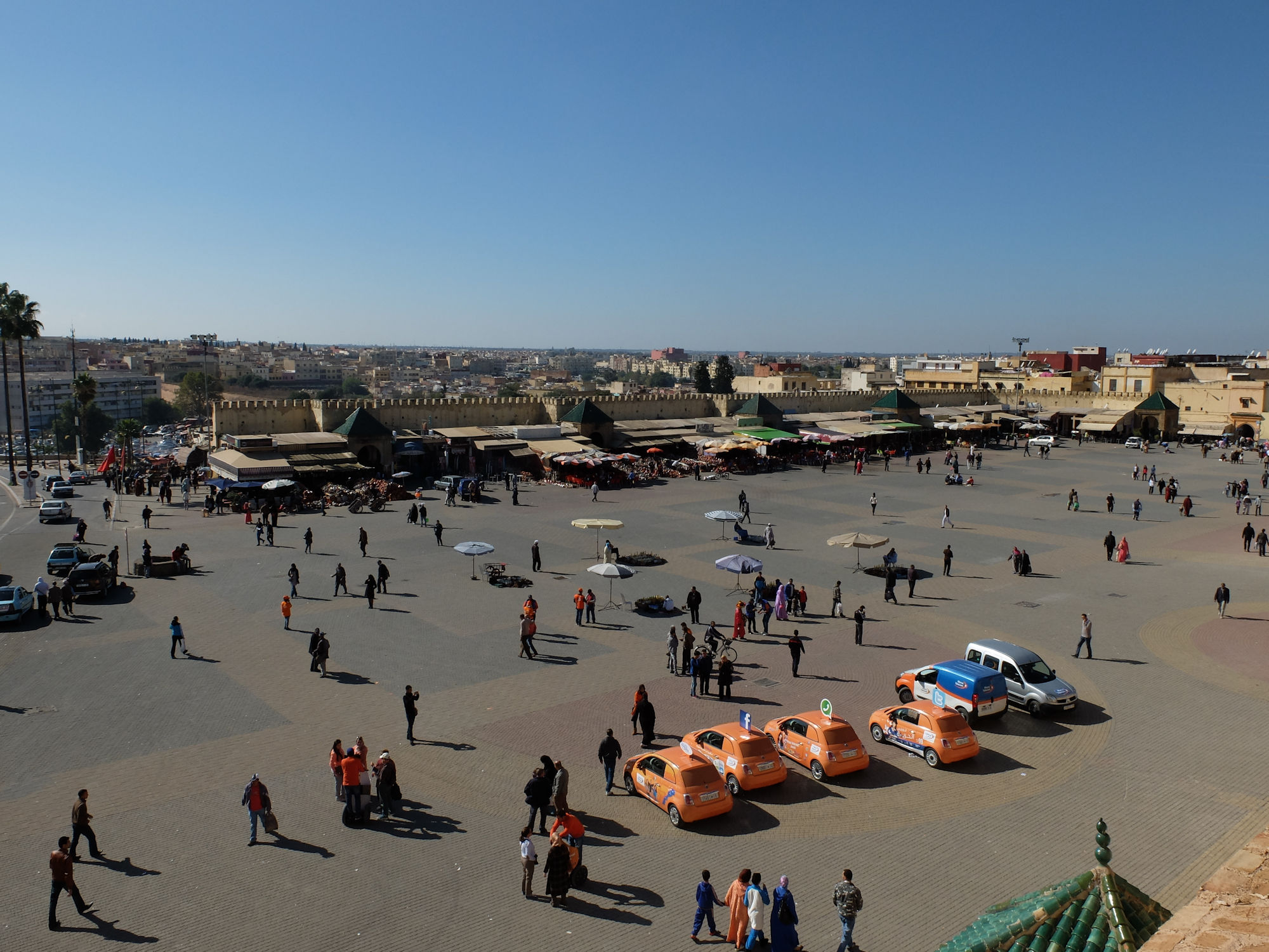 Place el-Hedim, seen from above